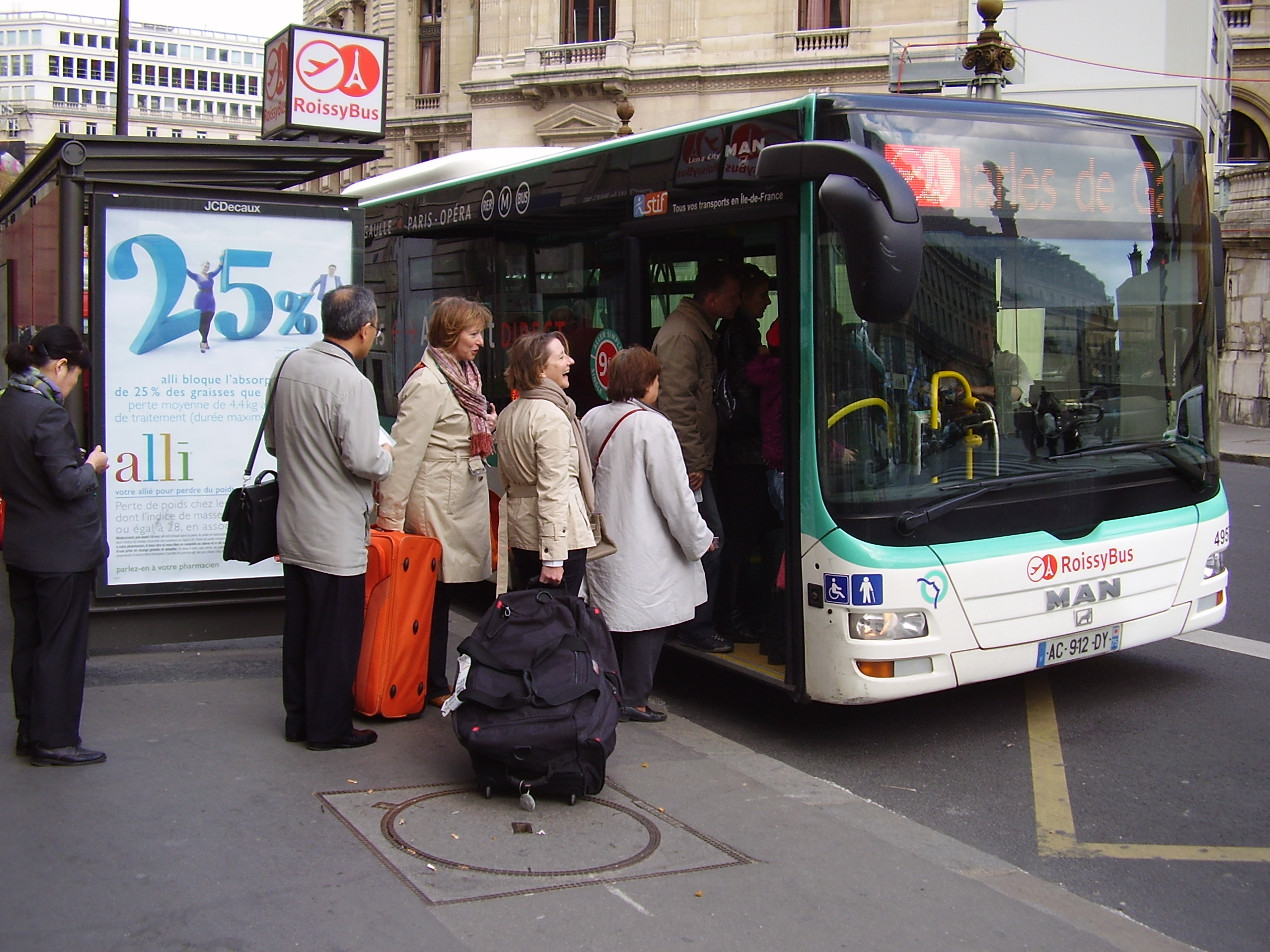 The RoissyBus in Paris